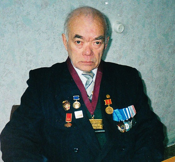 Konstantin F Sergeyev